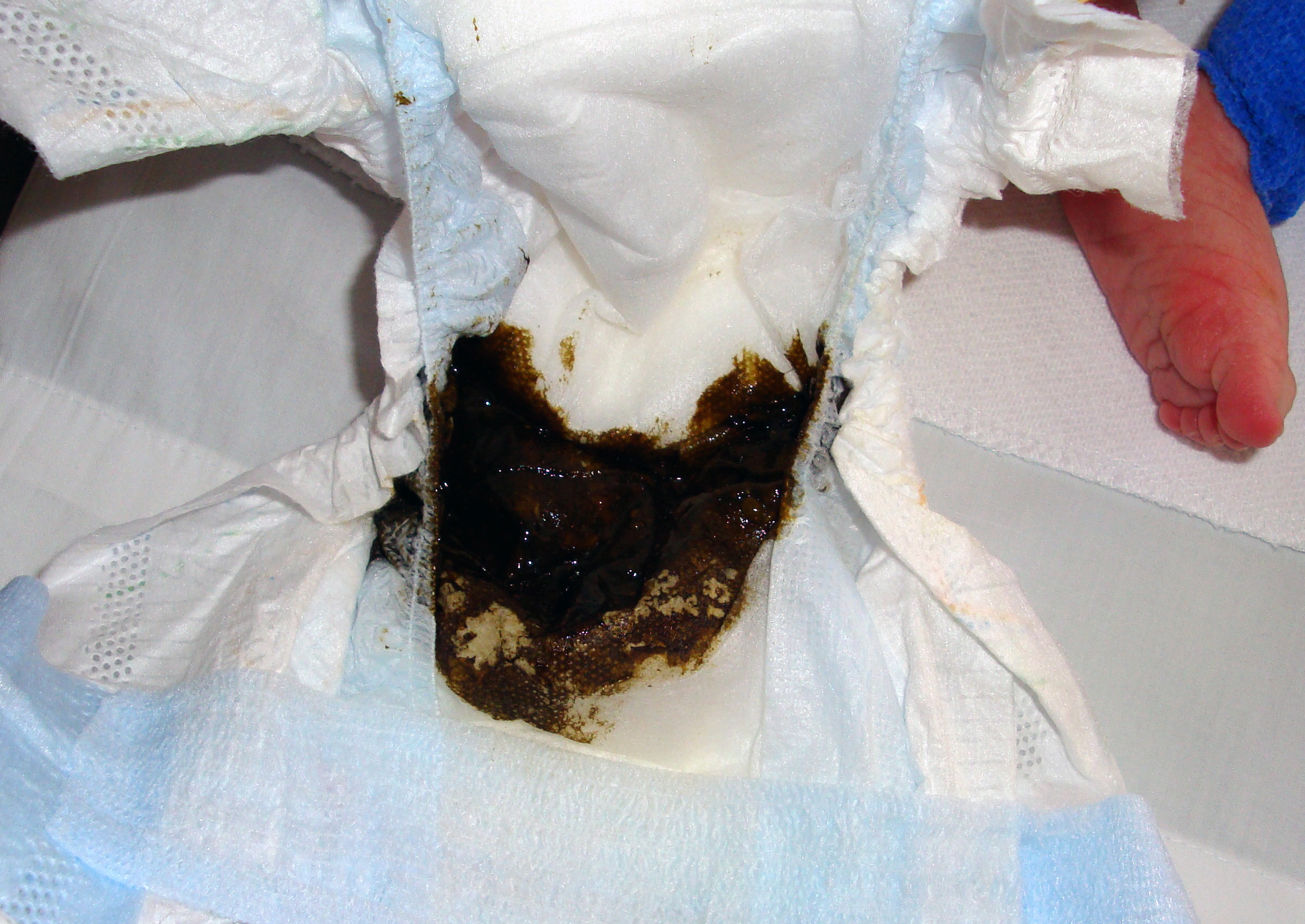 Meconium from a 13 hour old infant. The diaper and baby's foot are left in the photograph for scale. The baby was born at 4:10am on the 30th of May, 2008 at 41 weeks of gestational age. The baby weighed 7 pounds 5.4 ounces (3,328 g), and was 19.5 inches (50 cm) long. This meconium was produced at 5:19pm on the 30th of May, 2008, and it was the baby's first bowel movement. The photograph was taken at St. David's Hospital at 919 E 32nd St., Austin, TX 78705